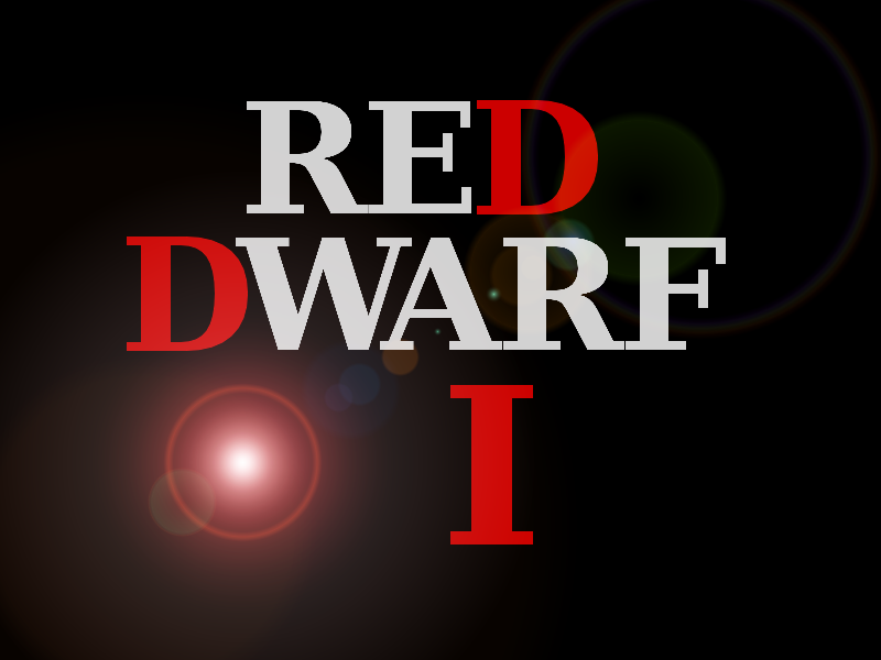 Simplified version of the Red Dwarf TV series logo, made with a public domain font, all copyrightable graphical elements have been removed, and a flare effect added.